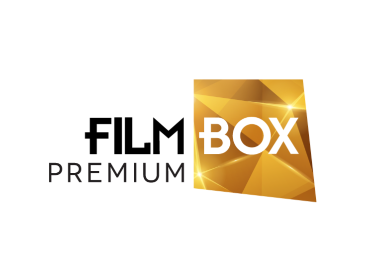 Logo of FilmBox Premium